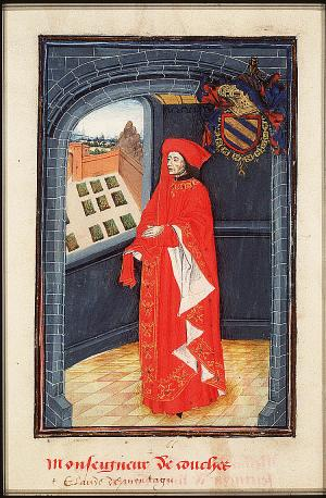 Statuts, Ordonnances et Armorial de l'Ordre de la Toison d'Or (Statutes, Ordonnances and armorial of the Order of the Golden Fleece) Place of origin, date: Southern Netherlands; 1473. Added sections: Southern Netherlands; 1478 or shortly after and 1491 or shortly after Material: Vellum, ff. 86, 249x187 (167x106) mm, 23 lines, littera cursiva (lettre bourguignonne). French. Binding: 18th-century brown leather Decoration: 1 full-page miniature (170x115 mm) with border decoration; 92 miniatures (185/155x120/100 mm); 1 historiated initial (80x90 mm) with border decoration; decorated initials with border decoration (ff., Added section: miniatures ; 4 drawings for miniatures (not finished) Provenance: Presented in 1473 by Gilles Gobet, King of Arms of the Order of the Golden Fleece, to Charles the Bold, Duke of Burgundy and the other Knights during the Chapter of the Order held at Valenciennes; Treasure of the Golden Fleece, Brussls; taken away by the Treasurer C.-F. Humyn (d. 1735) or his daughter C.Ch. de Corte; by legacy to her daughter M.-L. de Corte, wife of Ph.-E. de Poederlé; purchased in 1781 at the Poederlé sale by G.-J- Gérard of Brussels; acquired in 1832 as part of the Gérard collection (no. A 27)